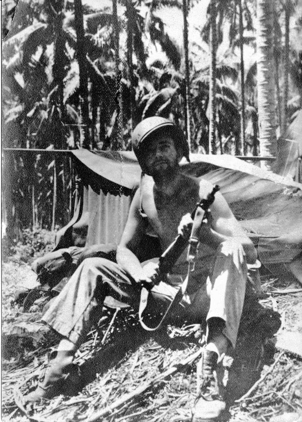 My father Jim Goodin on Guadalcanal during WWII. He was with the 1st Marine Division. Originally he was a high altitude parachutist. He got malaria 36 times.